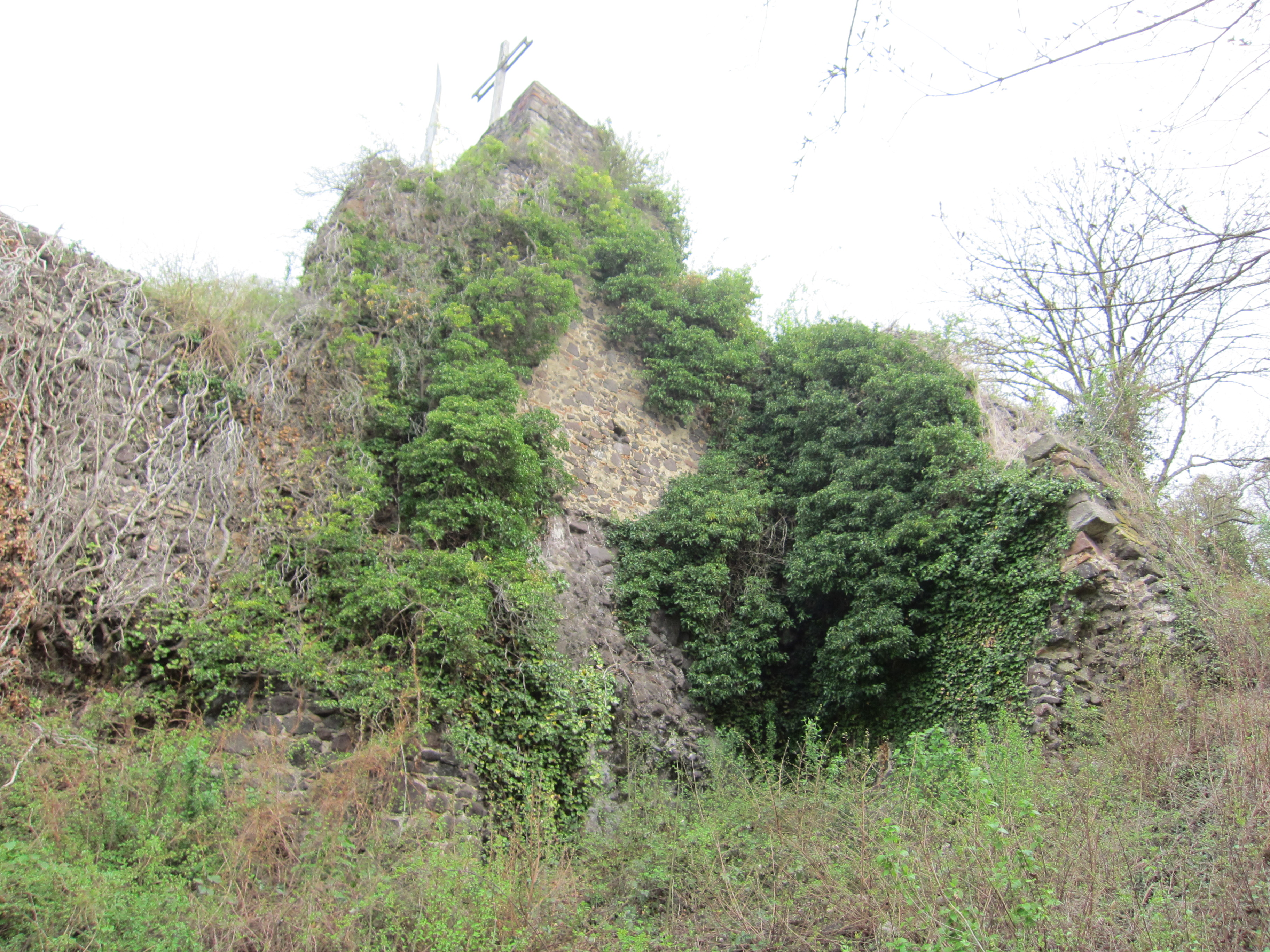 Limburg Castle, Bergfried stump, closer view from southwest